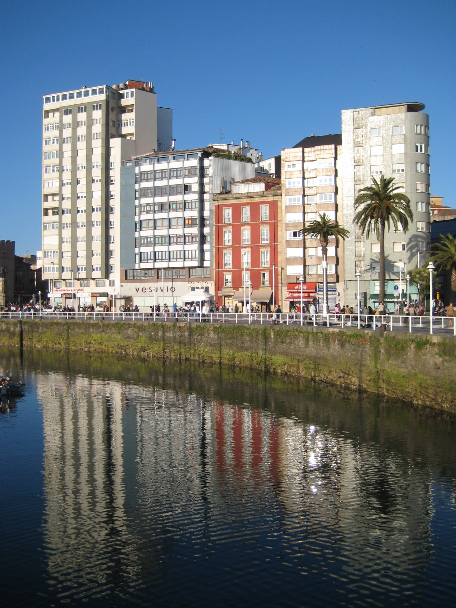 Gijón (Asturias, Spain)